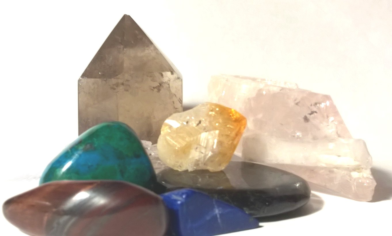 A selection of crystals which includes, clear and smoky quartz crystal, chrysocolla, tiger iron, lapis lazuli, Danburite, citrine and arfvedsonite.